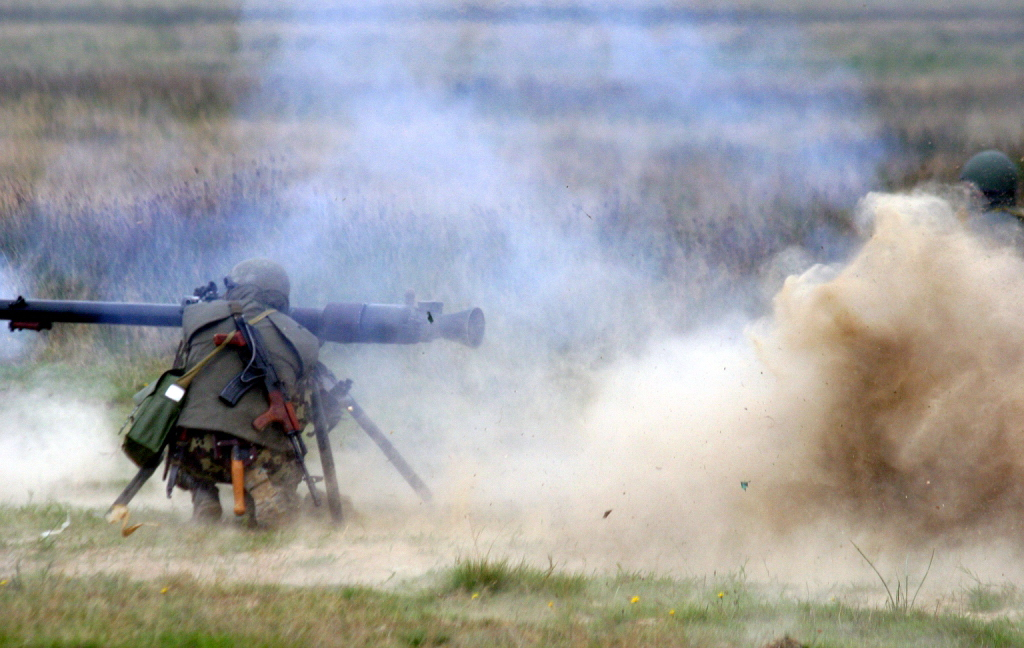 AG-9 (licensed built SPG-9) firing.